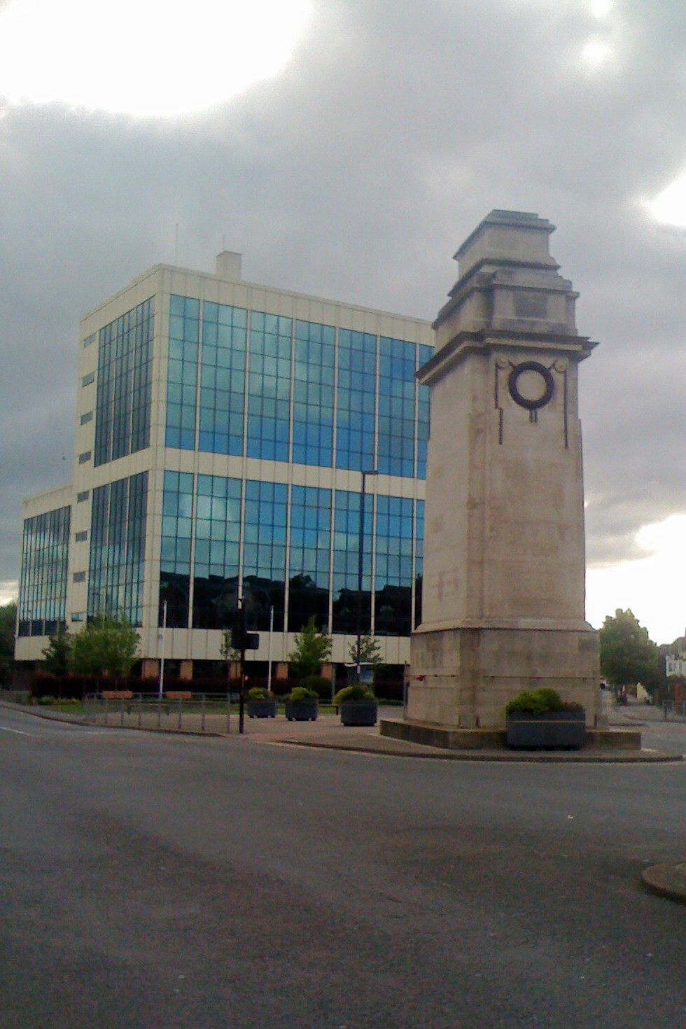 Centotaph, Clarence Place, Newport, South Wales